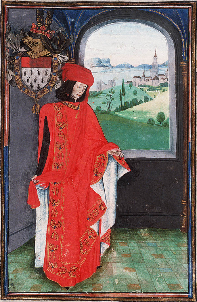 Statuts, Ordonnances et Armorial de l'Ordre de la Toison d'Or (Statutes, Ordonnances and armorial of the Order of the Golden Fleece) Place of origin, date: Southern Netherlands; 1473. Added sections: Southern Netherlands; 1478 or shortly after and 1491 or shortly after Material: Vellum, ff. 86, 249x187 (167x106) mm, 23 lines, littera cursiva (lettre bourguignonne). French. Binding: 18th-century brown leather Decoration: 1 full-page miniature (170x115 mm) with border decoration; 92 miniatures (185/155x120/100 mm); 1 historiated initial (80x90 mm) with border decoration; decorated initials with border decoration (ff., Added section: miniatures ; 4 drawings for miniatures (not finished) Provenance: Presented in 1473 by Gilles Gobet, King of Arms of the Order of the Golden Fleece, to Charles the Bold, Duke of Burgundy and the other Knights during the Chapter of the Order held at Valenciennes; Treasure of the Golden Fleece, Brussls; taken away by the Treasurer C.-F. Humyn (d. 1735) or his daughter C.Ch. de Corte; by legacy to her daughter M.-L. de Corte, wife of Ph.-E. de Poederlé; purchased in 1781 at the Poederlé sale by G.-J- Gérard of Brussels; acquired in 1832 as part of the Gérard collection (no. A 27)